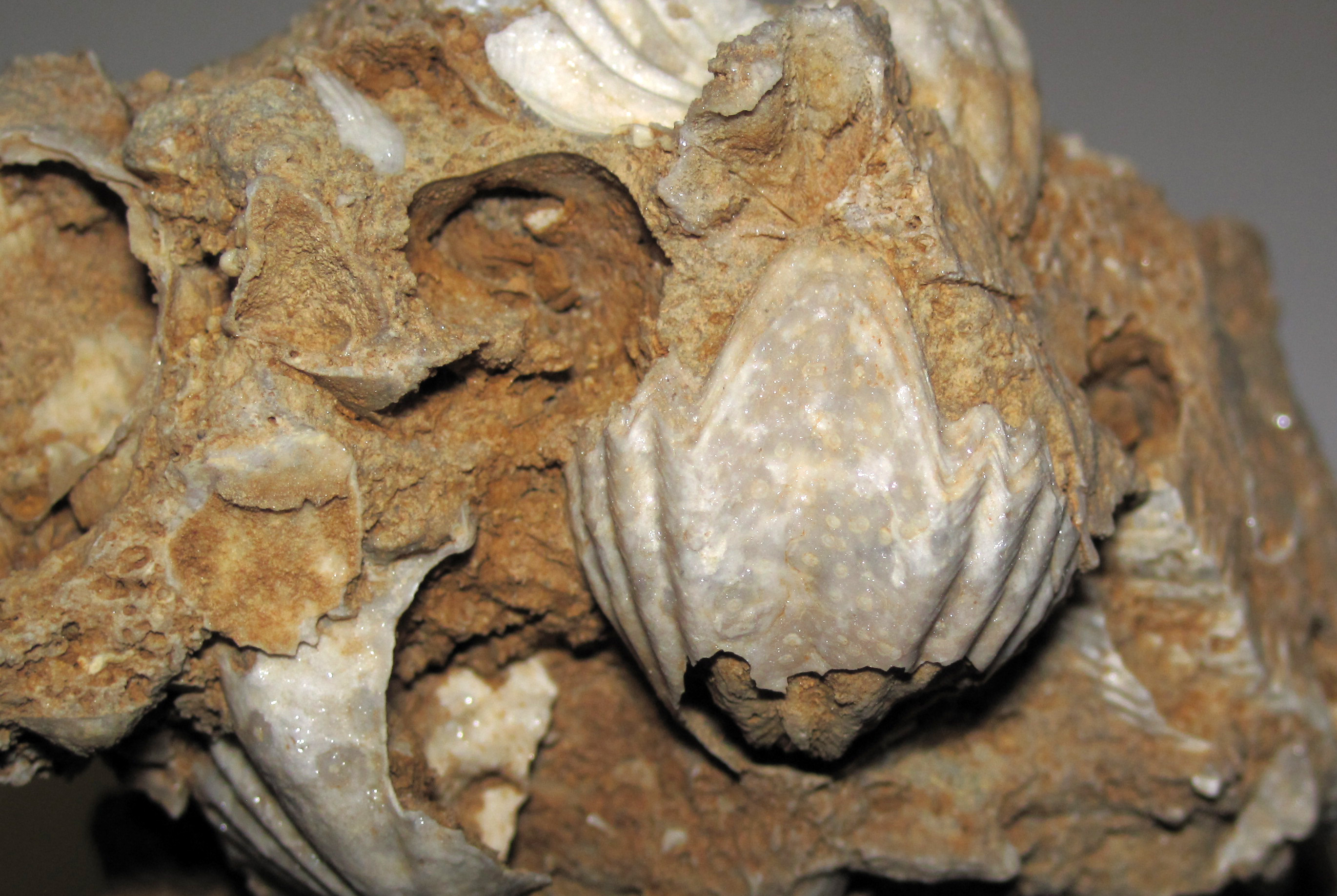 Brevispirifer gregarius (Clapp, 1857) fossil brachiopod in silicified fossiliferous limestone in the Devonian of Indiana, USA (field of view ~4.3 cm across). Exceedingly fossiliferous rocks of the Jeffersonville Limestone are well exposed at the famous Falls of the Ohio outcrop (Indiana side of the Ohio River at Louisville). These Middle Devonian rocks have abundant colonial and solitary corals (tabulates and rugosans), plus other typical Paleozoic shallow carbonate seafloor invertebrates (e.g., brachiopods, bryozoans, crinoids). The fossil at the center of this photo is a Brevispirifer gregarius brachiopod (Animalia, Brachiopod, Articulata, Spiriferida), which is especially abundant in certain intervals of the Jeffersonville Limestone. The shells and skeletons in this limestone sample have been silicified (replaced by quartz/silica - SiO2). The silicified fossils are more resistant to weathering than the limestone host rock. Upon weathering and erosion, the fossils stand out in relief. Stratigraphy: Brevispirifer gregarius zone, Jeffersonville Limestone, lower Middle Devonian Locality: northern shore of the Ohio River, across from the city of Louisville, west of the Falls of the Ohio rapids, southern margin of Clark County, southern Indiana, USA (vicinity of 38° 16' 42.32" North, 85° 45' 57.79" West)